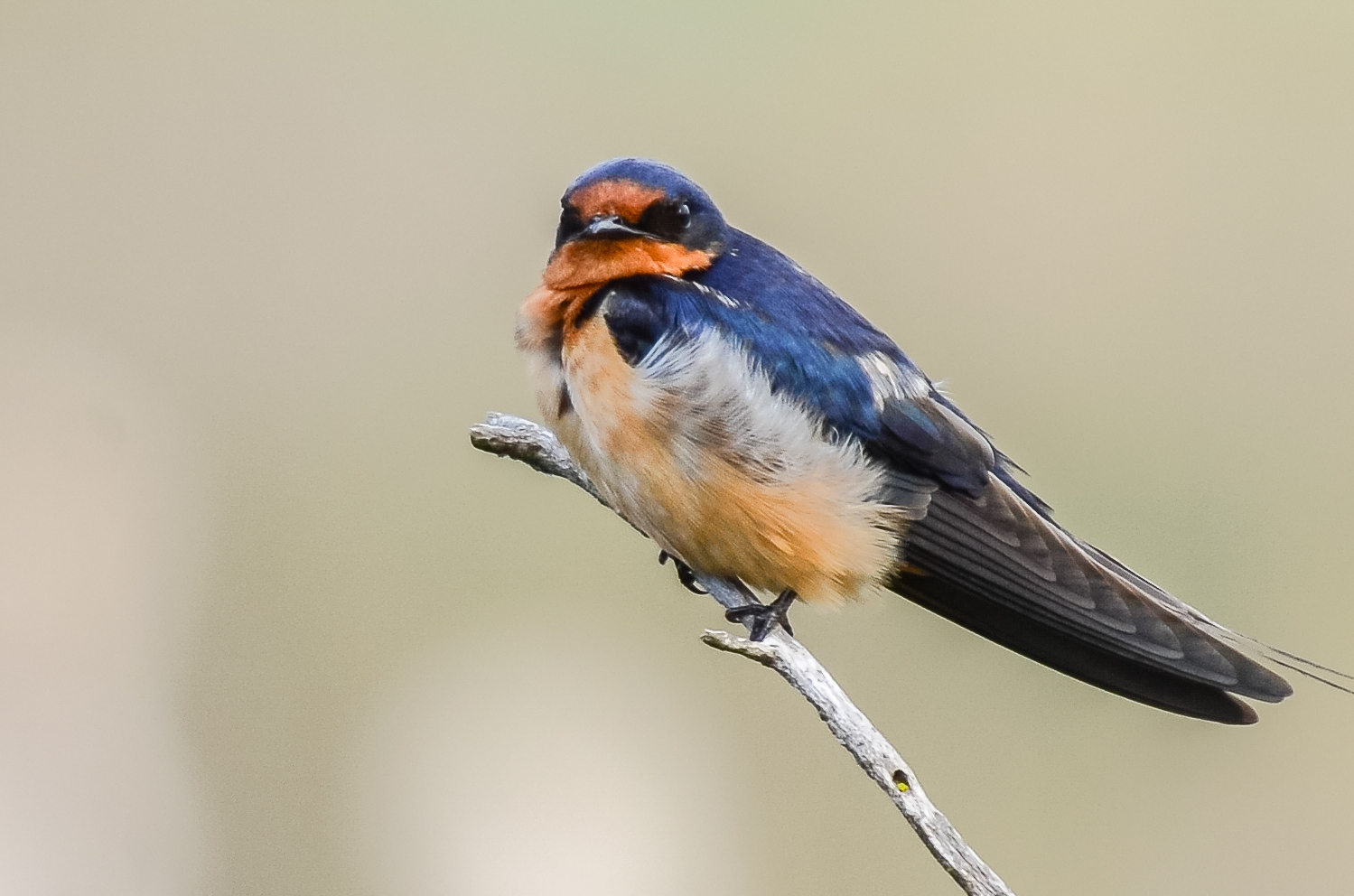 Kane County, IL